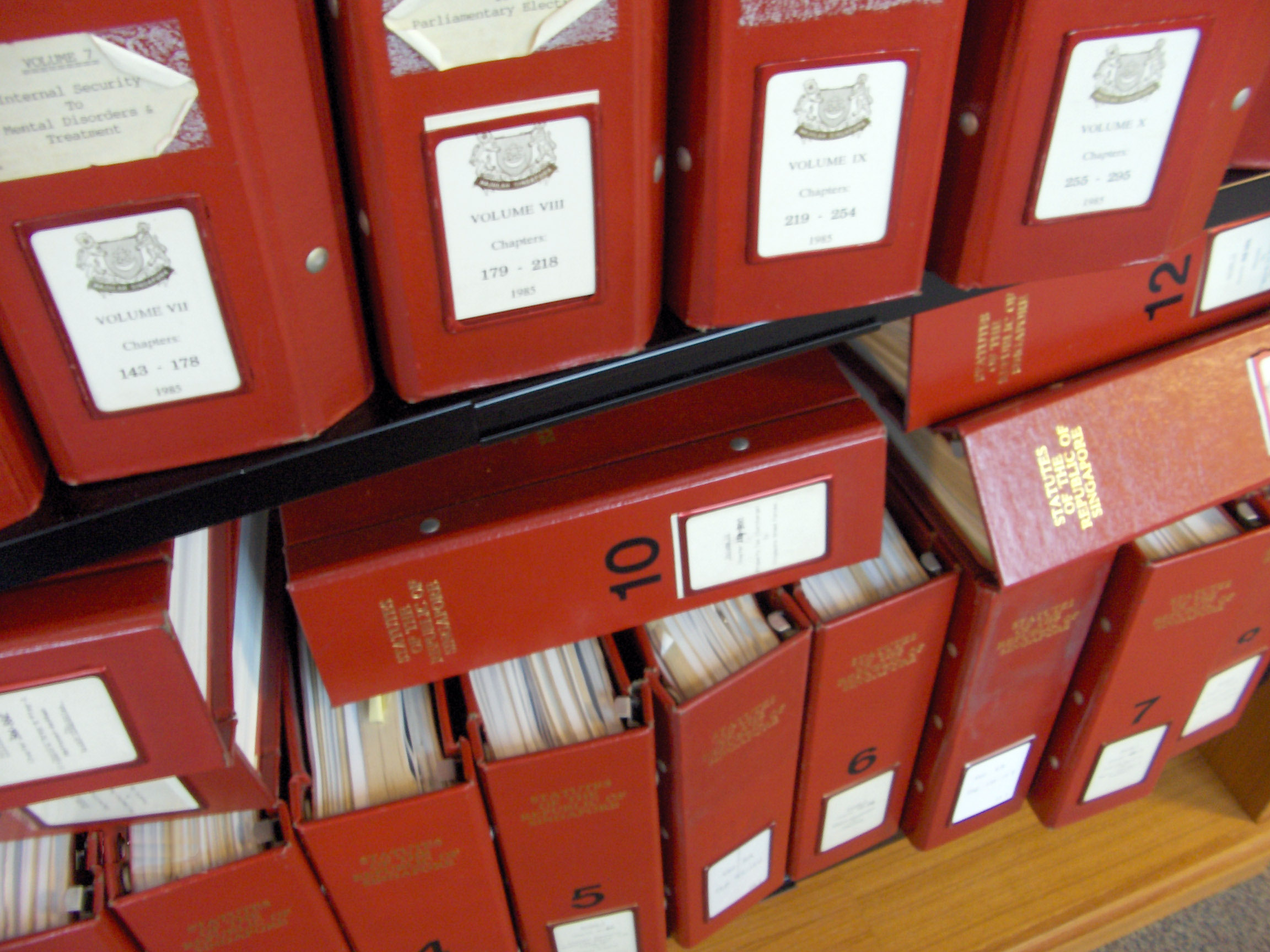 The Statutes of the Republic of Singapore. Rev. ed. 1985–present. Singapore: Law Revision Commission, 1986–. Photographed at the Library of the Supreme Court of Singapore which was formerly in the City Hall Building.